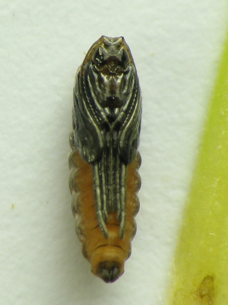 Rhopalomyia solidaginis, pupa from goldenrod bunch gall. Rancocas Nature Center NJAS, Burlington County, New Jersey, USA.